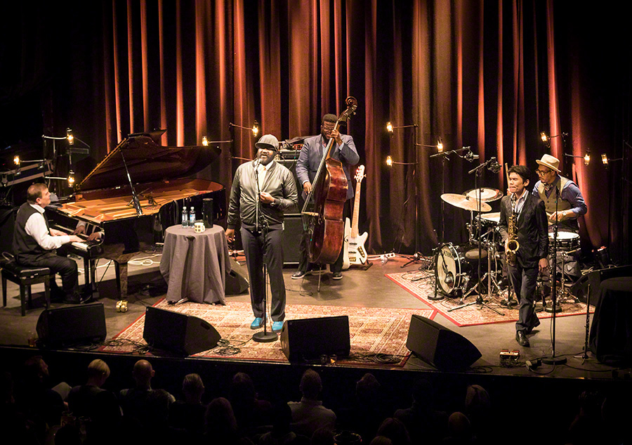 Gregory Porter at the stage of Cosmopolite. The concert took place on 16. October 2016 in Oslo. Porter won a Grammy for best jazz vocal in 2014. This was his third concert in Oslo since his debut i 2010Lineup: Gregory Porter (vocal), Chip Crawford (piano), Jahmal Nichols (double bass), Emanuel Harrold (drums), Yohsuke Sato (saxophone)